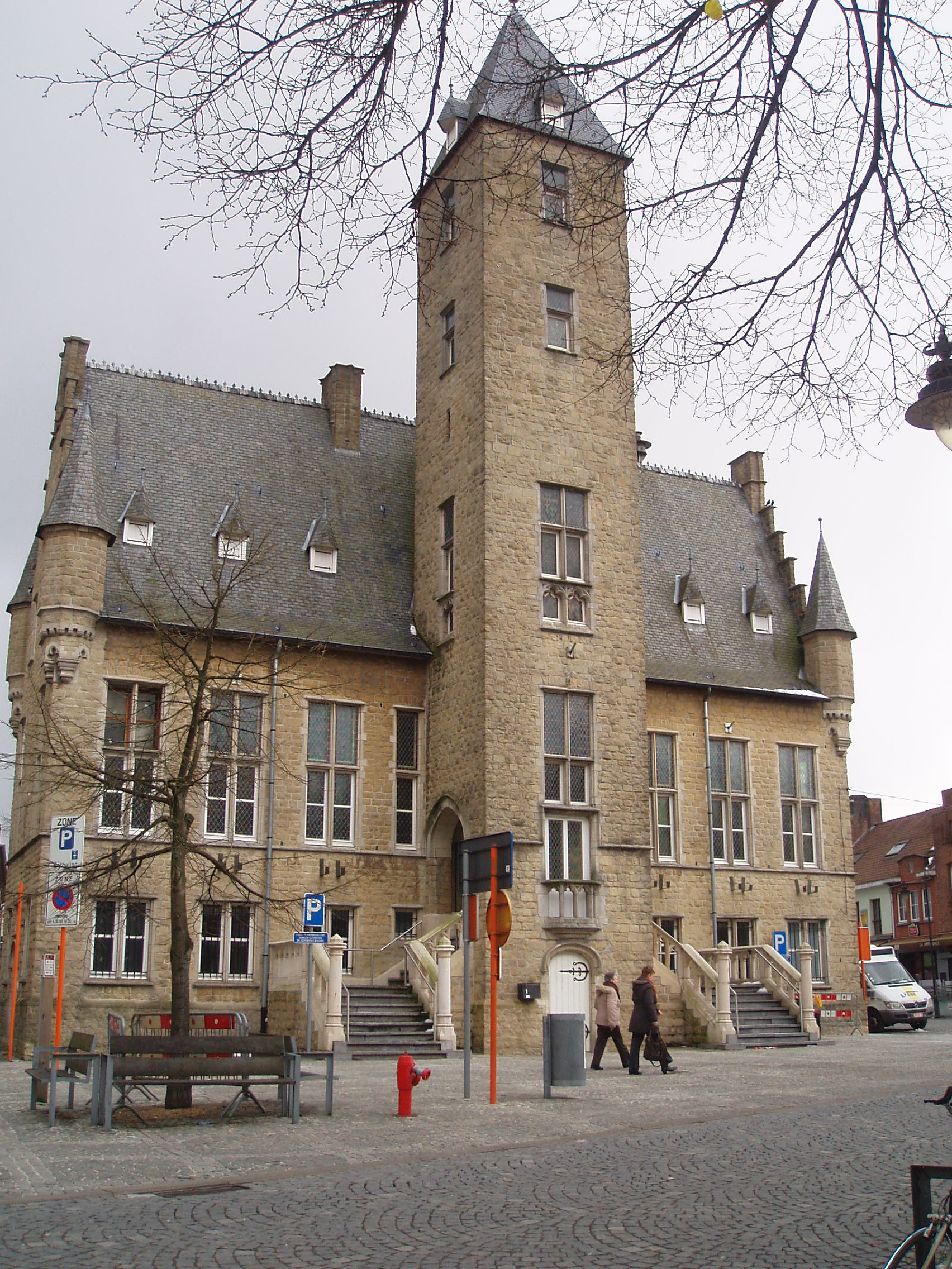 Bornem Landhuis